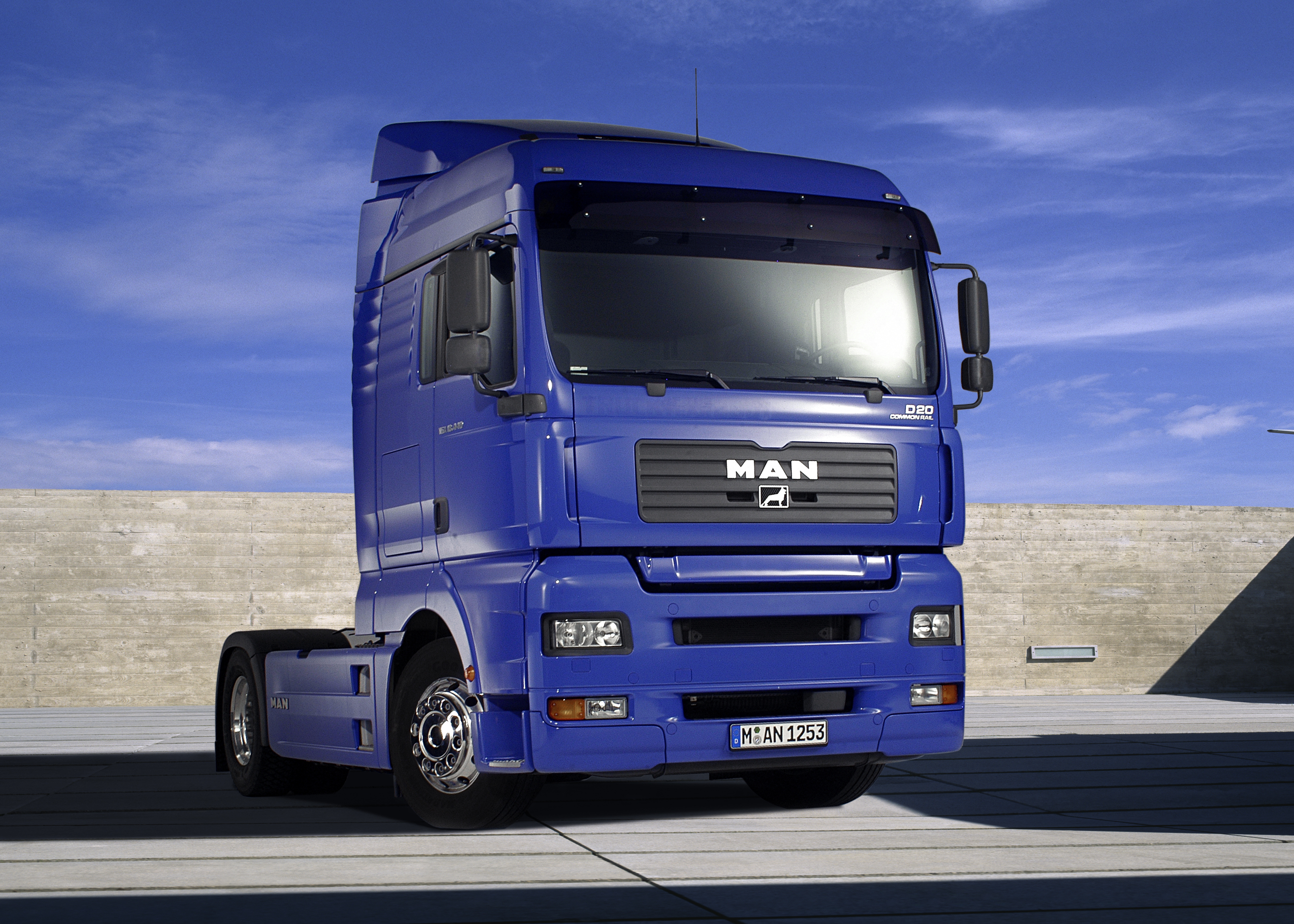 MAN TGA